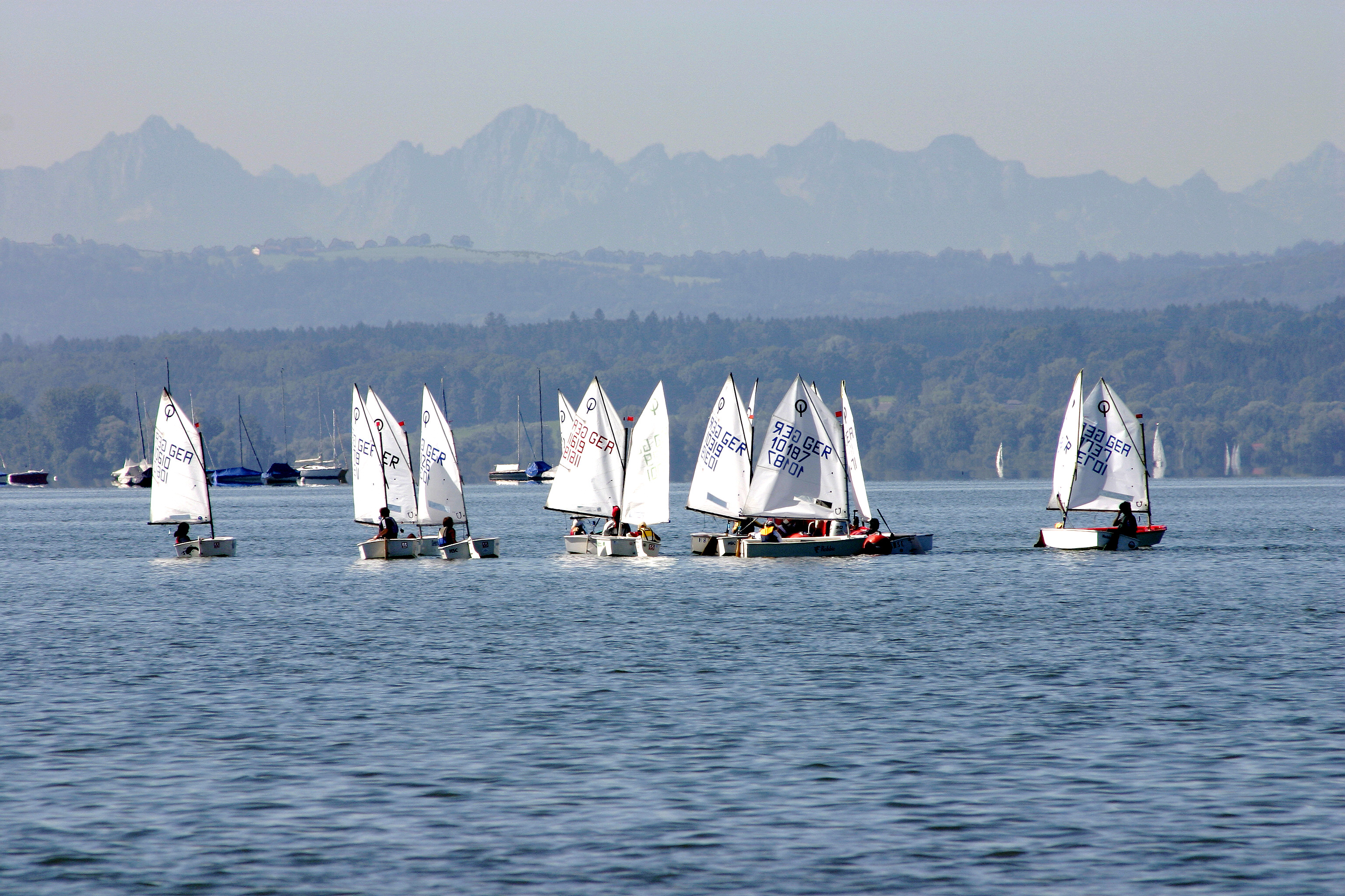 Lake Ammersee with sailboats